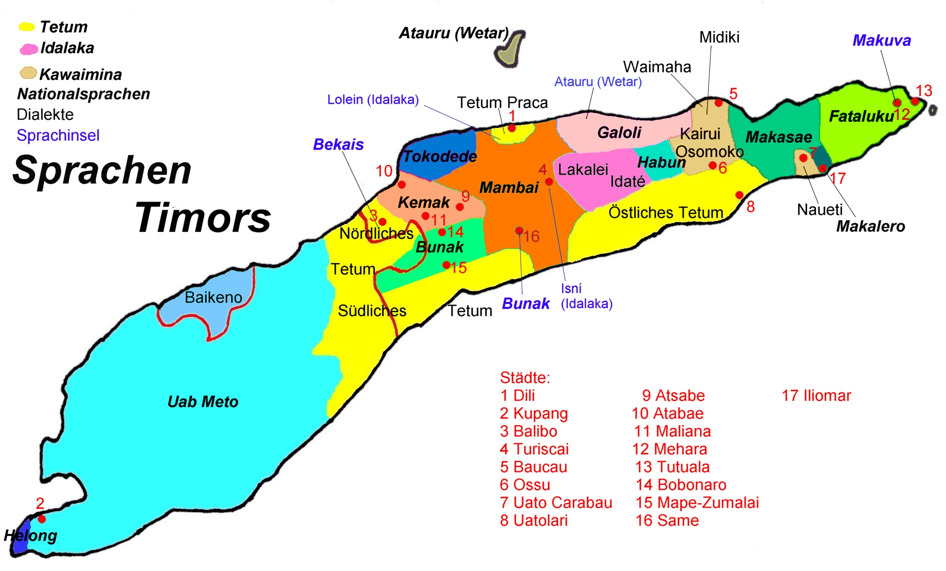 Languages of Timor as of 2006 drawn by J. Patrick Fischer (German)